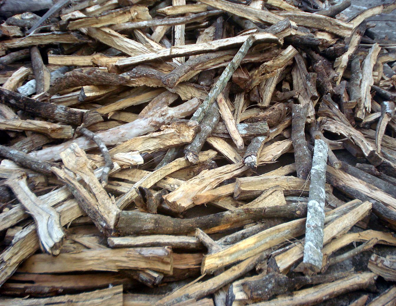 Woods